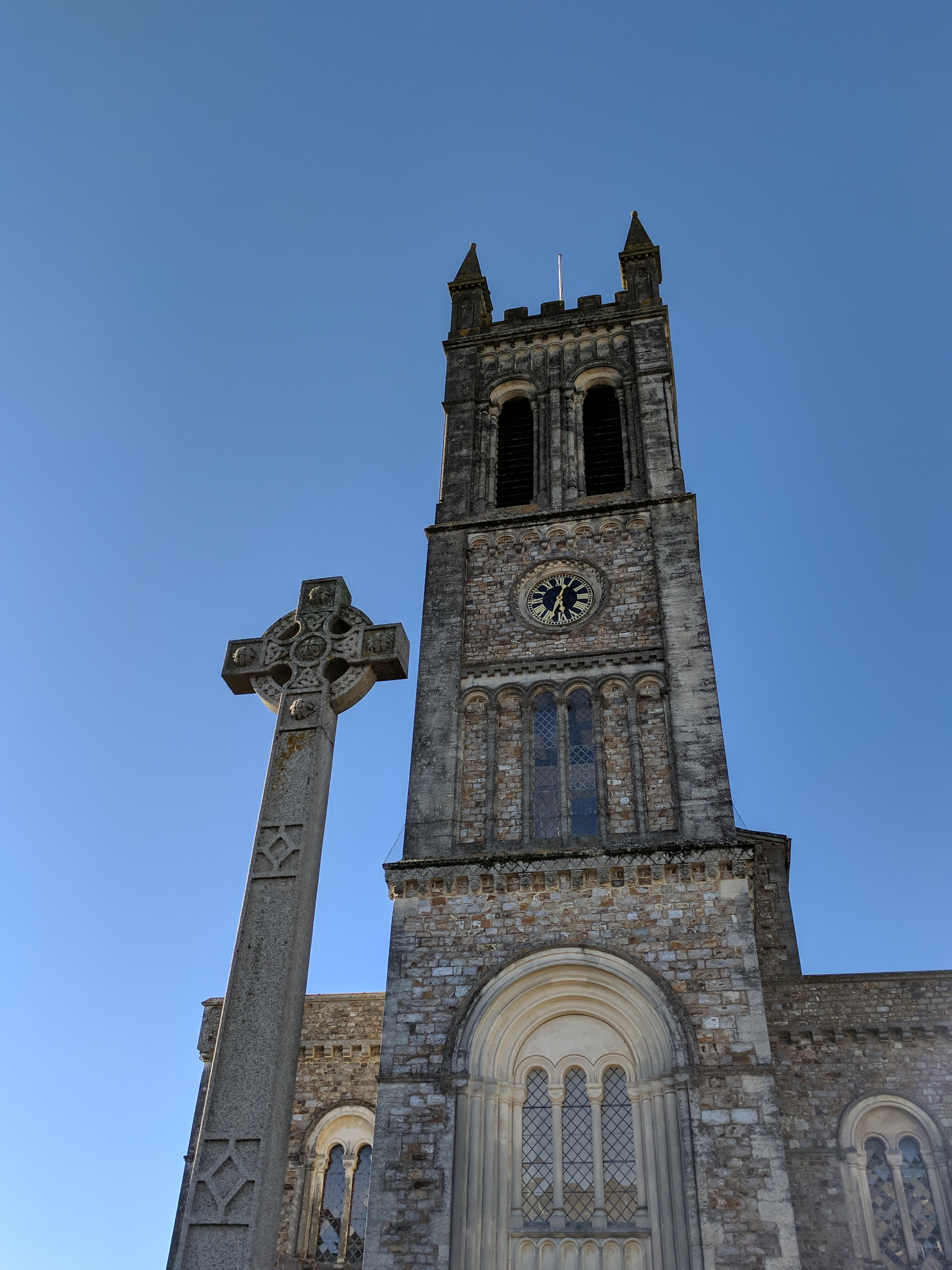 South tower of St Paul's parish church, Honiton, Devon, seen from the south, with the town's main war memorial in the foreground